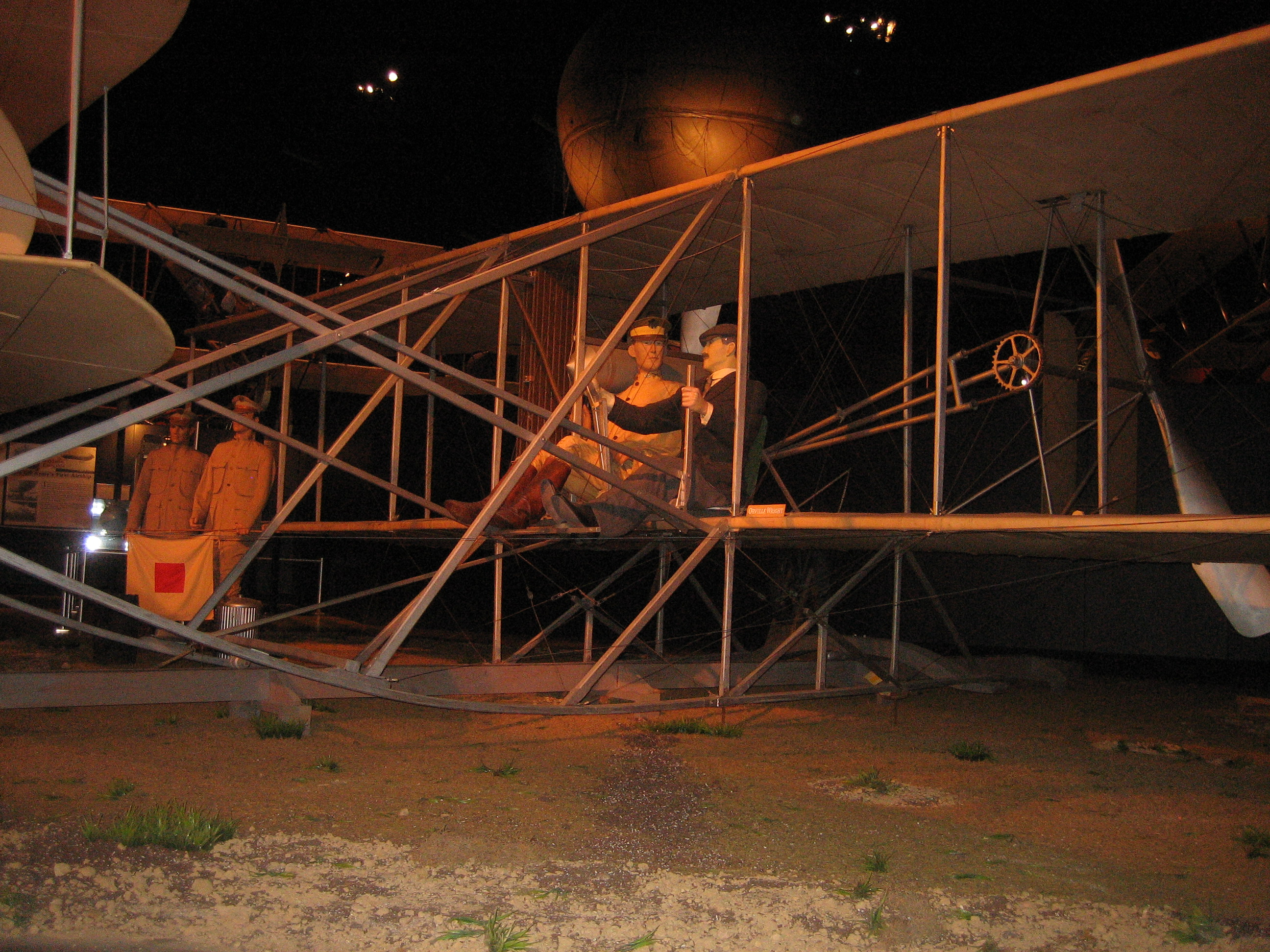 1909 Wright Military Flyer, photographed at the National Museum of the United States Air Force.